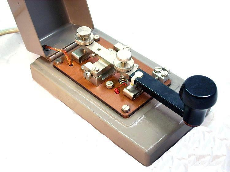 telegraph key, Swiss Army, used for transceivers SE-222 and SE-415